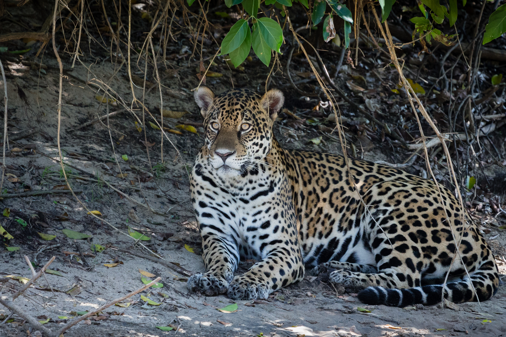 A jaguar (Panthera onca) in Pantanal, Miranda, Mato Grosso do Sul, Brazil.